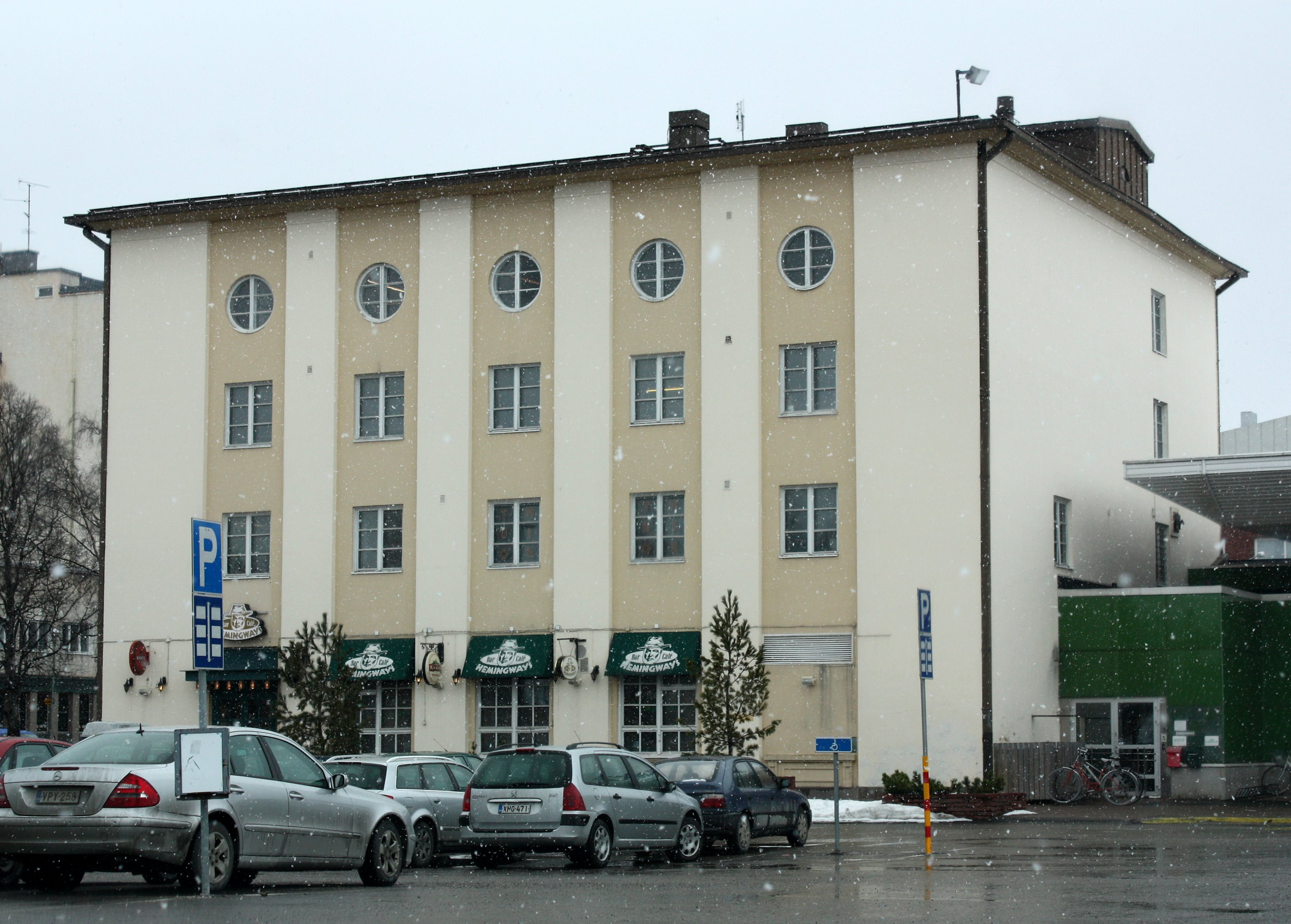 Bakery and office building of Kemi cooperative was built in 1929. Nowadays it hosts bar Hemingway's.